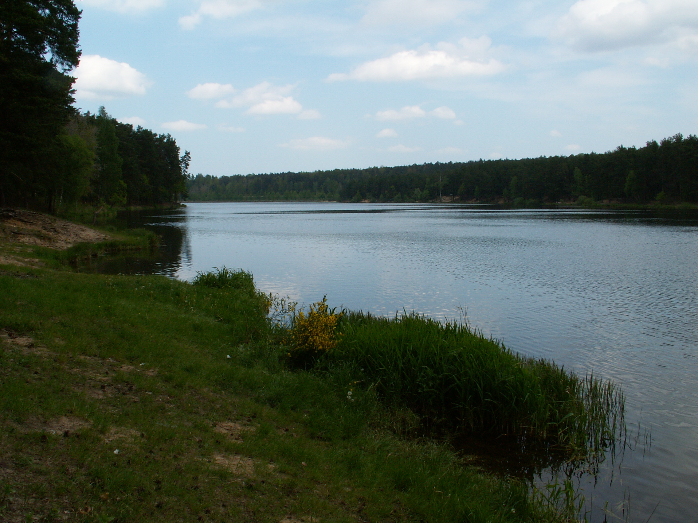 Rejów submersion in Skarżysko-Kamienna (Poland)